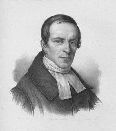 Portrait of Theodor Kliefoth from the collection of the Landeshauptarchiv Schwerin